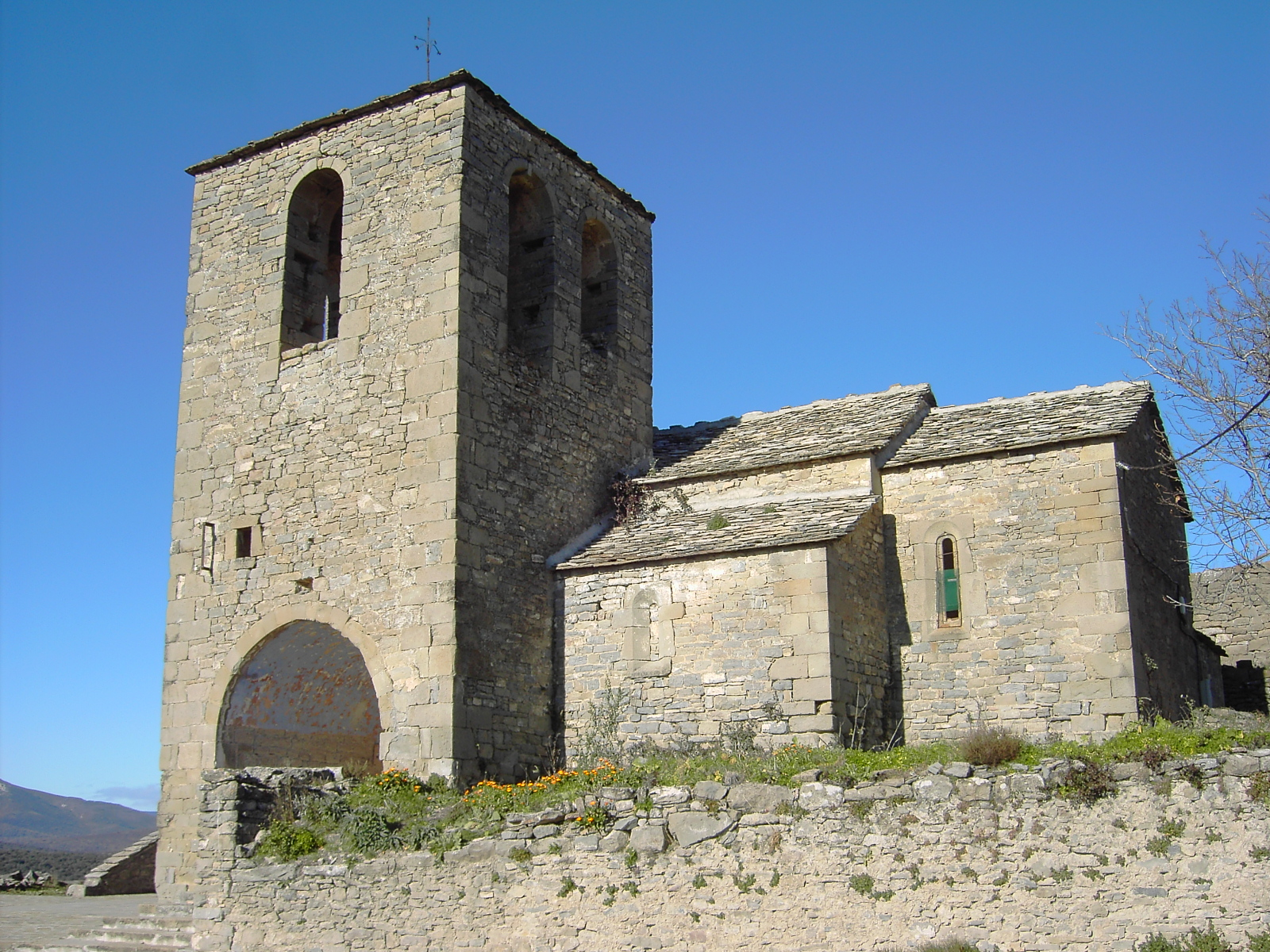 Santa Olaria's church in Eripol, Huesca, Spain.